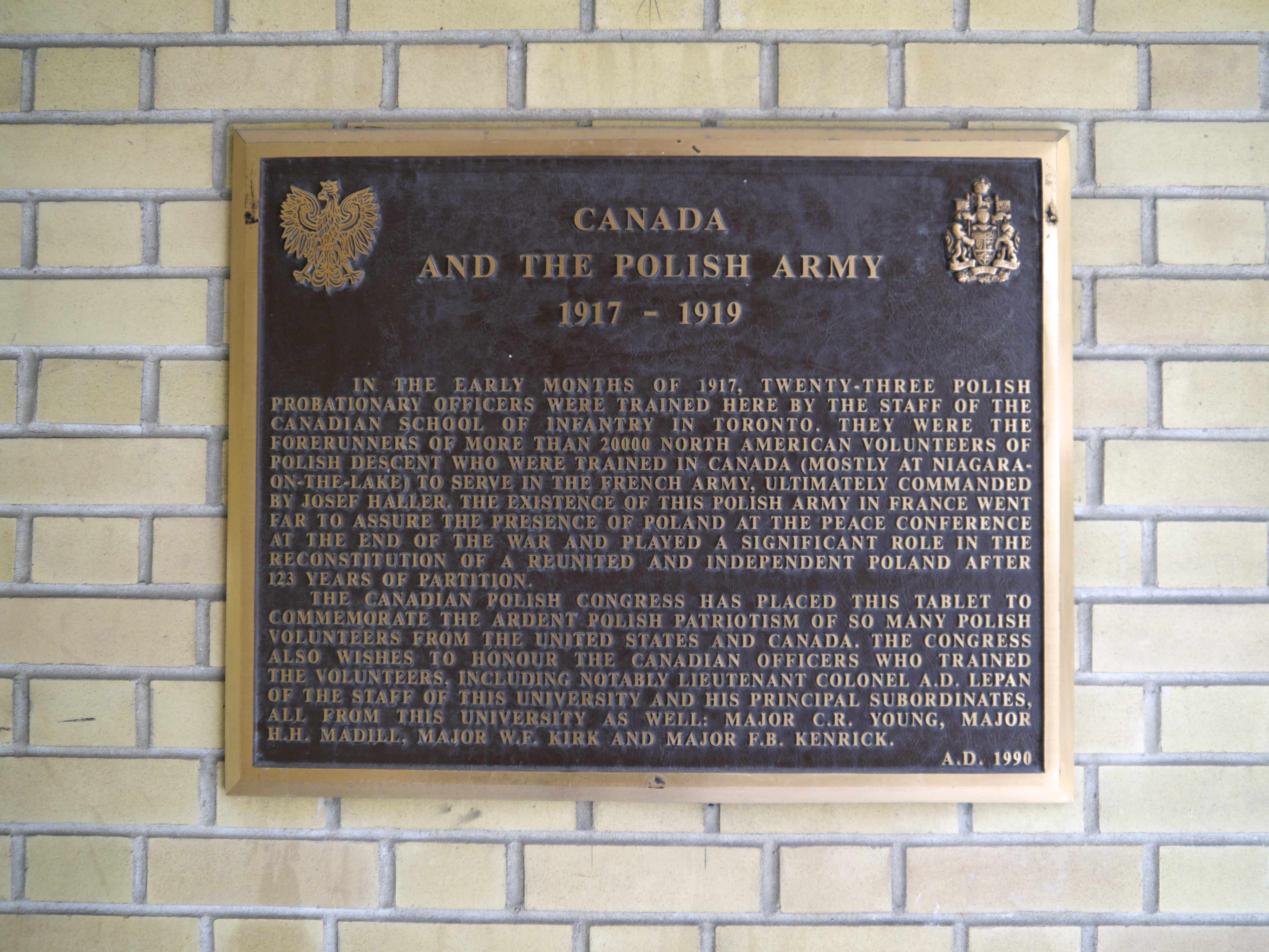 Table commemorating the training of Polish Army officers at University College, University of Toronto.